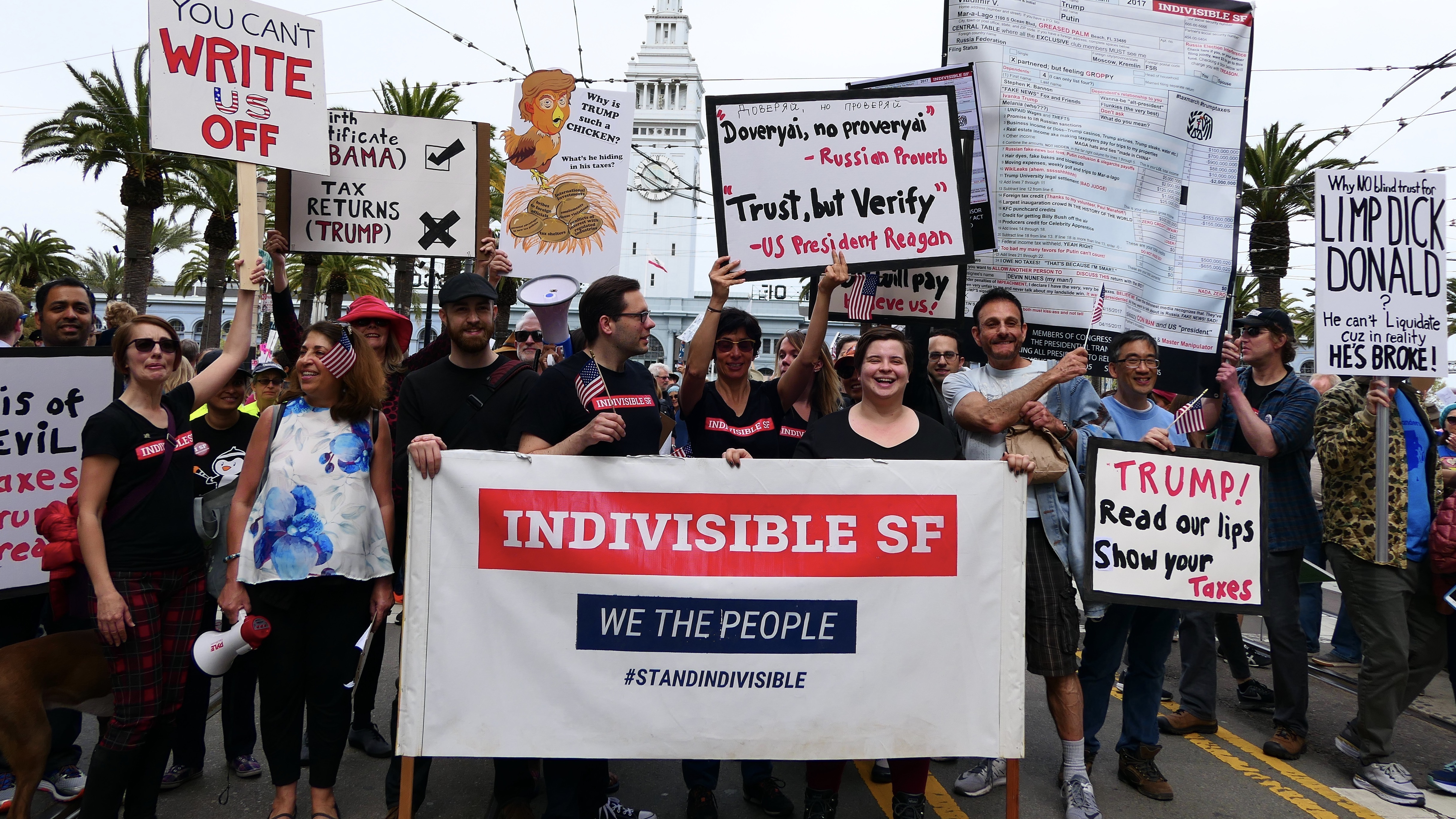 Tax March SF